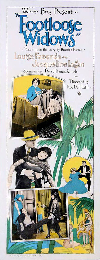 Poster for the 1926 film Footloose Widows. There are no copyright marks on the item. At lower left is Printed by Artcraft Inc Phila USA.